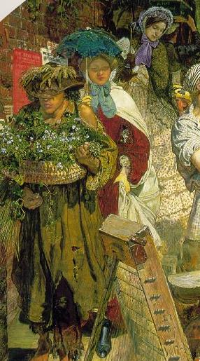 The flower seller and the aristocrat: detail of Work by Ford Madox Brown